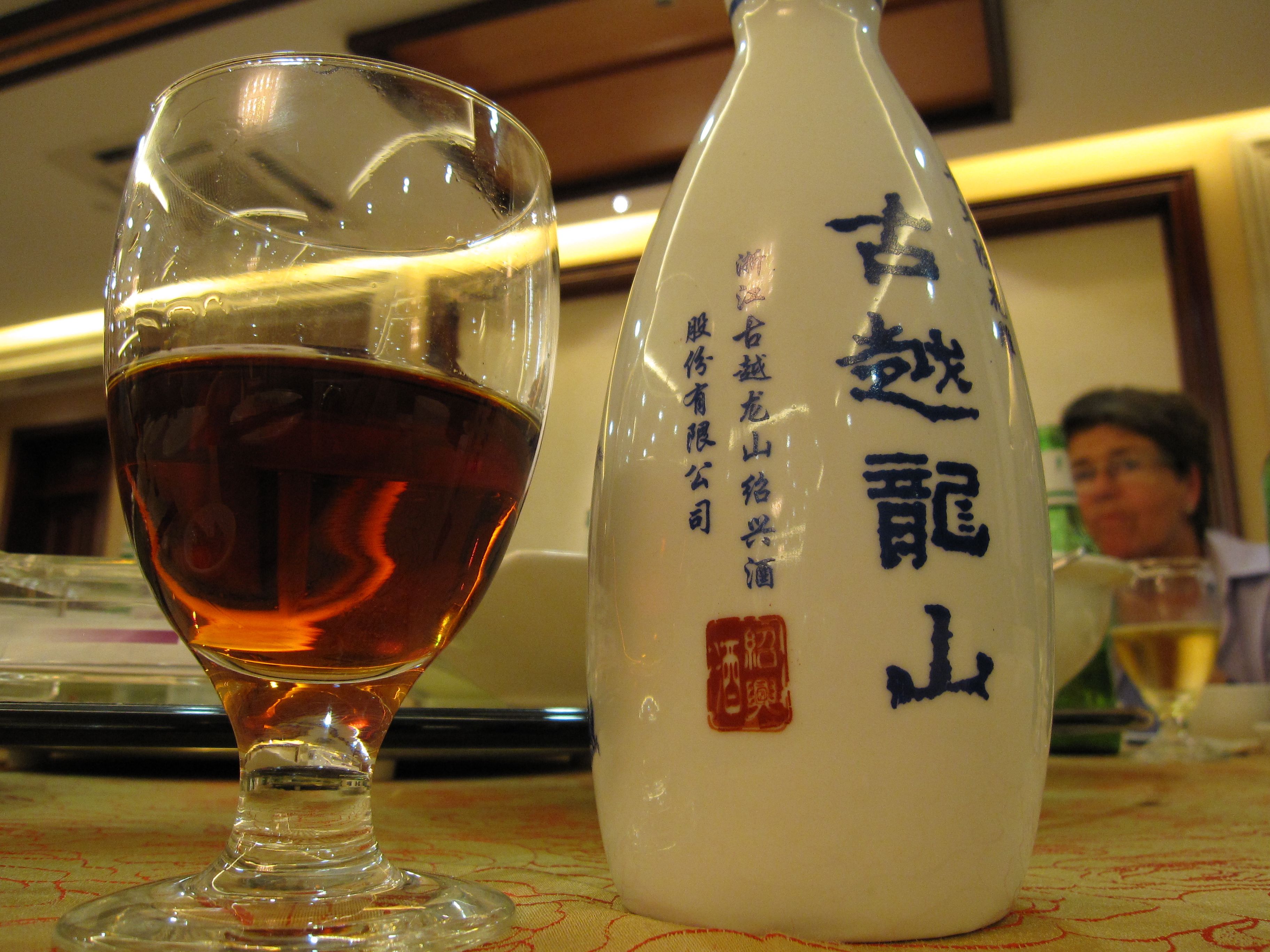 Shaoxing Rice Wine, Huadiao, 10ys, bottle and glass